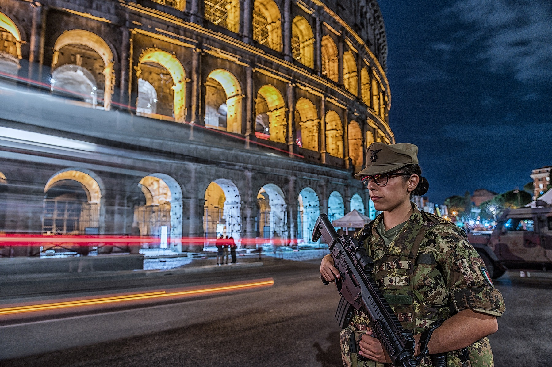 Italian Army, a female soldier of the 5th Alpini Regiment guarding the Colosseum in Rome